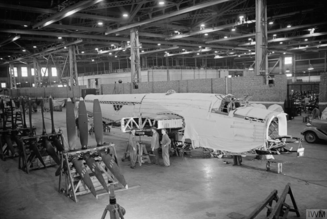 Royal Air Force 1939-1945- Bomber Command A Wellington under construction at the Vickers 'shadow factory' at Hawarden, near Chester, 1 June 1942.